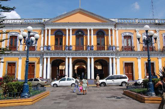 Coatepec City Council Building